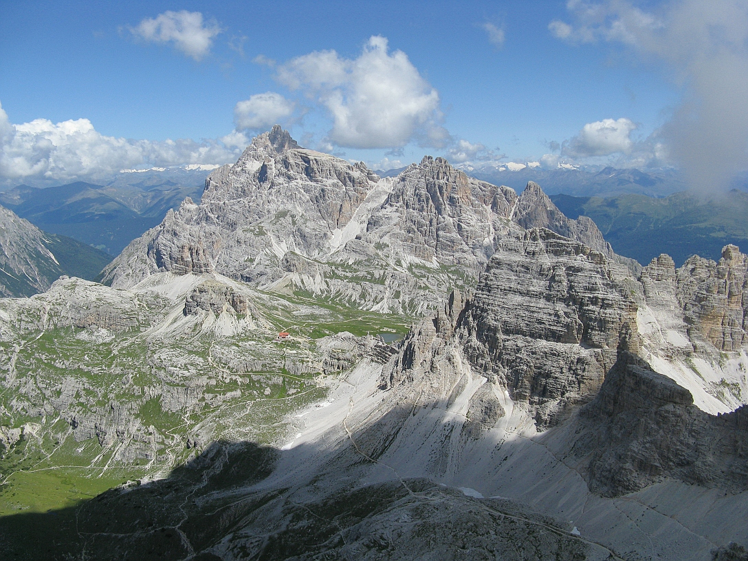 Dreischusterspitze, Schusterplatte and Paternkofel from the summit of Cima Piccola/Kleine Zinne (Tre Cime di Lavaredo)